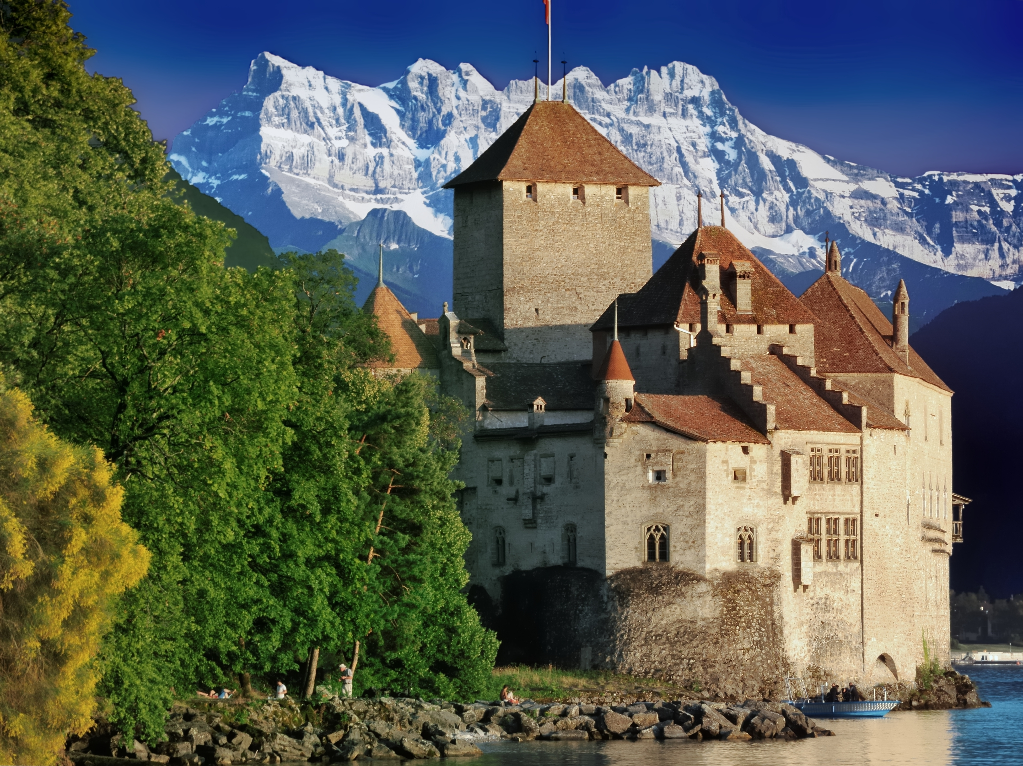 Castle of Chillon